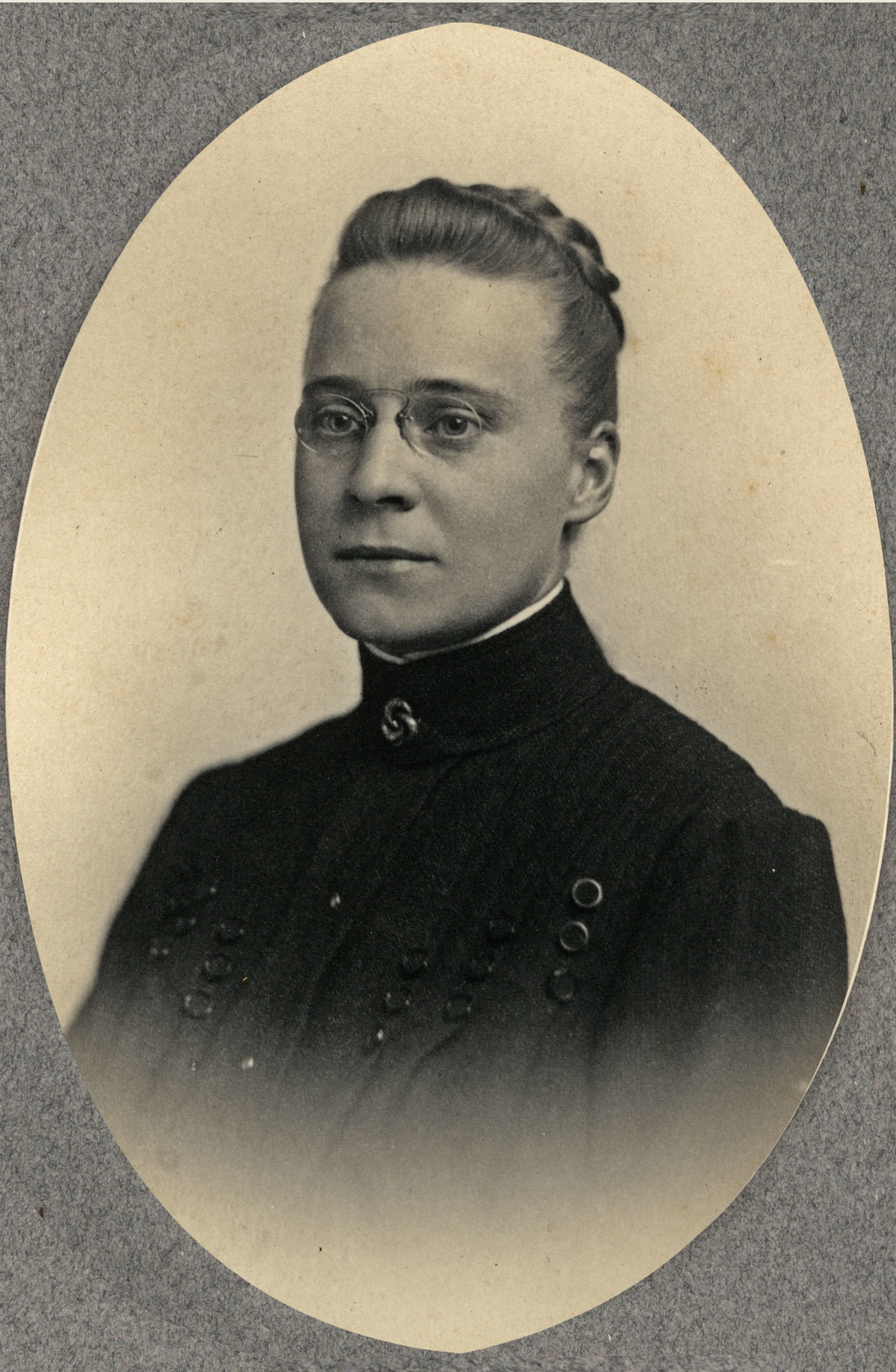 Title Lillie Rose Ernst, Class of 1892 Source Early Graduate Photographs, album 63 (circa 1897) Date 1897